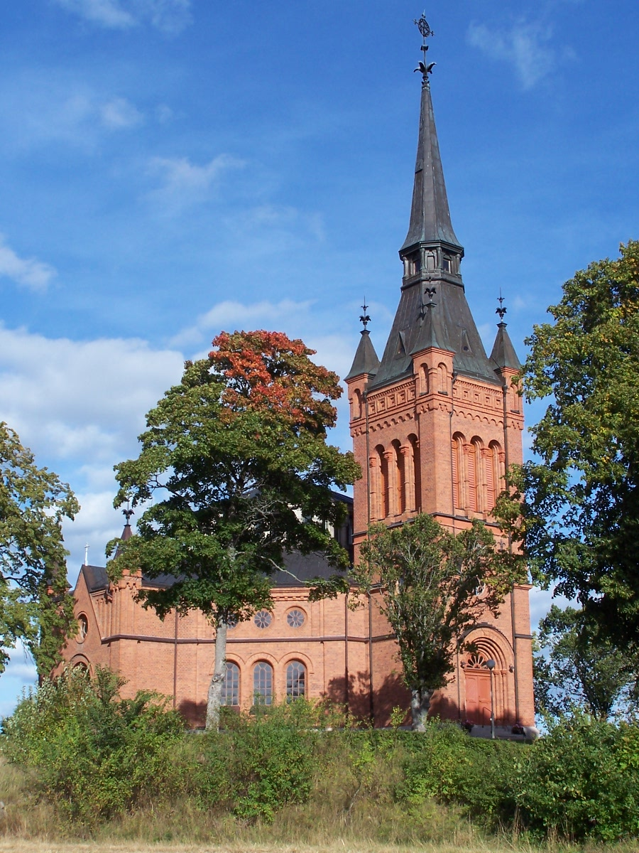 Gladhammar church, Sweden